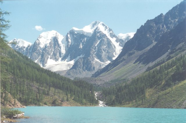 Photo of Famous Lake Shavlo in Altai Mountains - July 2002